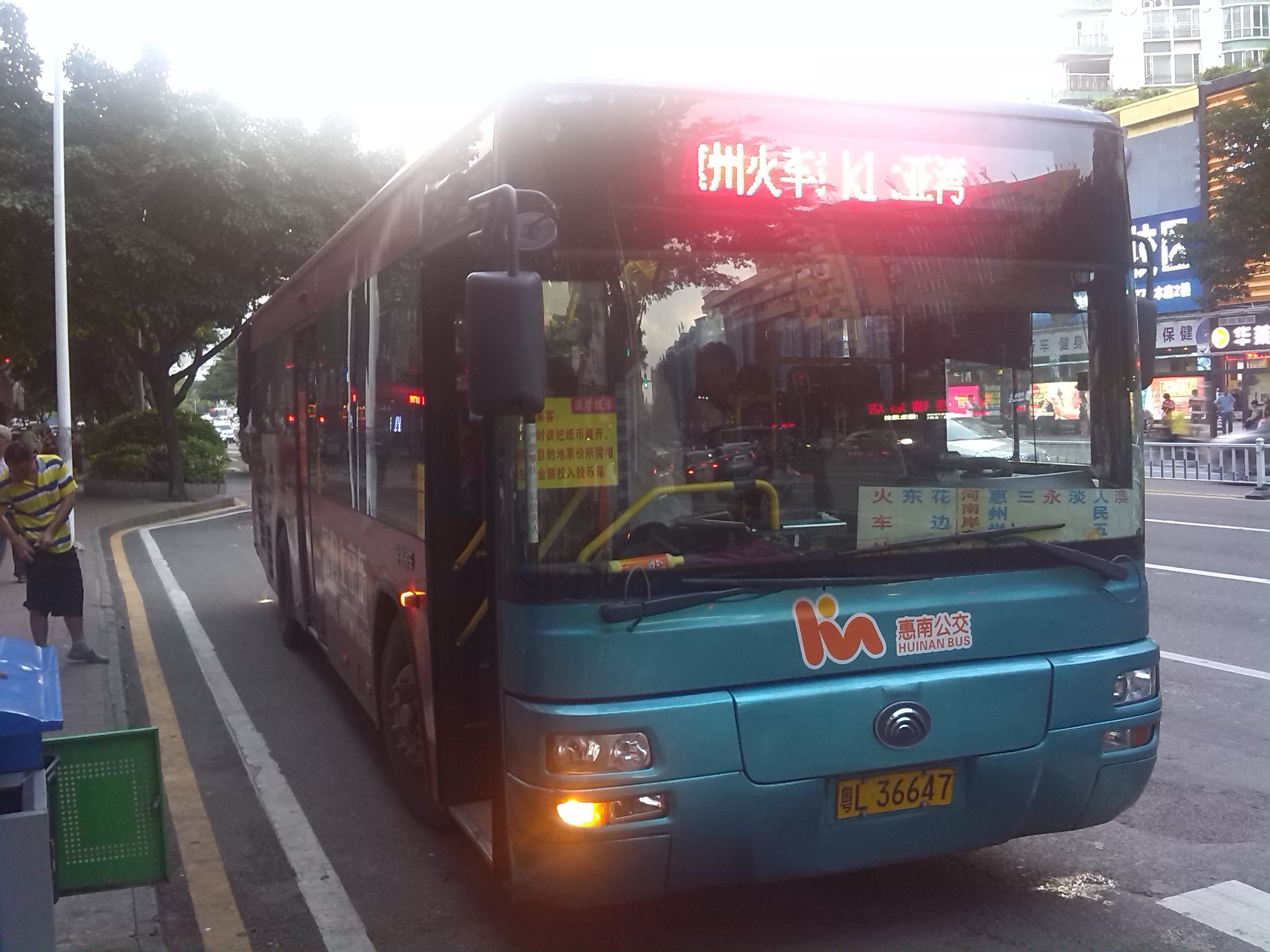 A Yutong ZK6108HGC bus which is powered by diesel and enlisting on Huinan Bus Co,ltd Route K1. The plate number of this bus is "粤L•36647" . The photo was taken at the bus stop of Dongping Market. This bus was already written off.